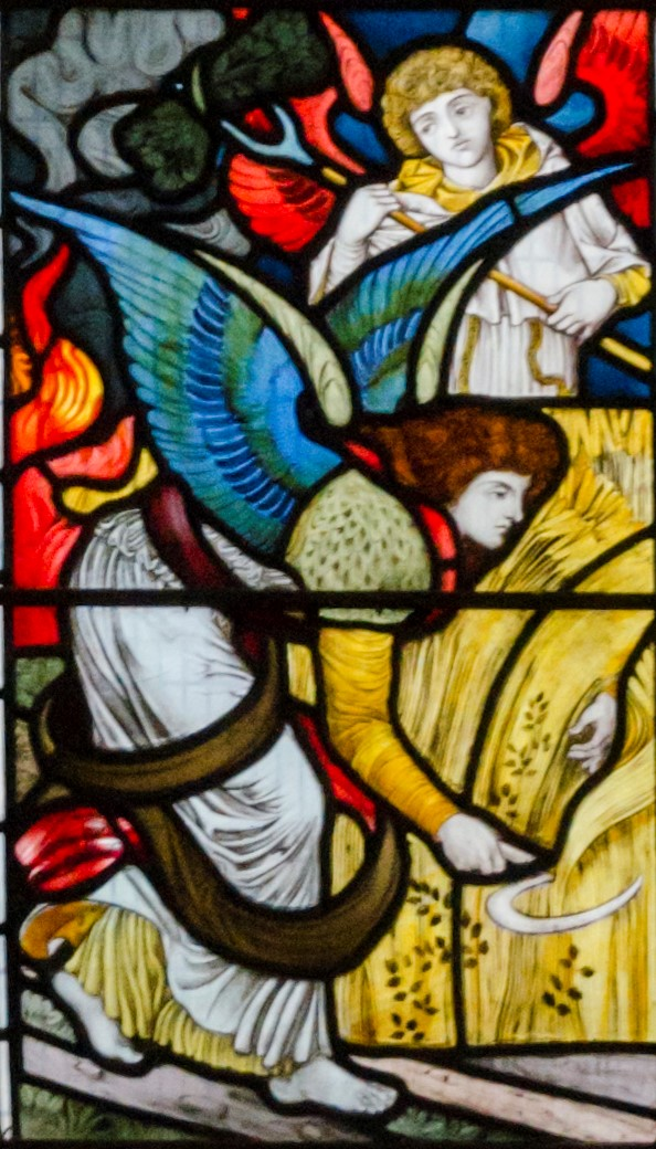 Detail of the Sower and Reaper window in Sts Peter and Paul Church, Pickering, North Yorkshire. It was produced in 1878 by Shrigley and Hunt from a design by E. H. Jewitt.